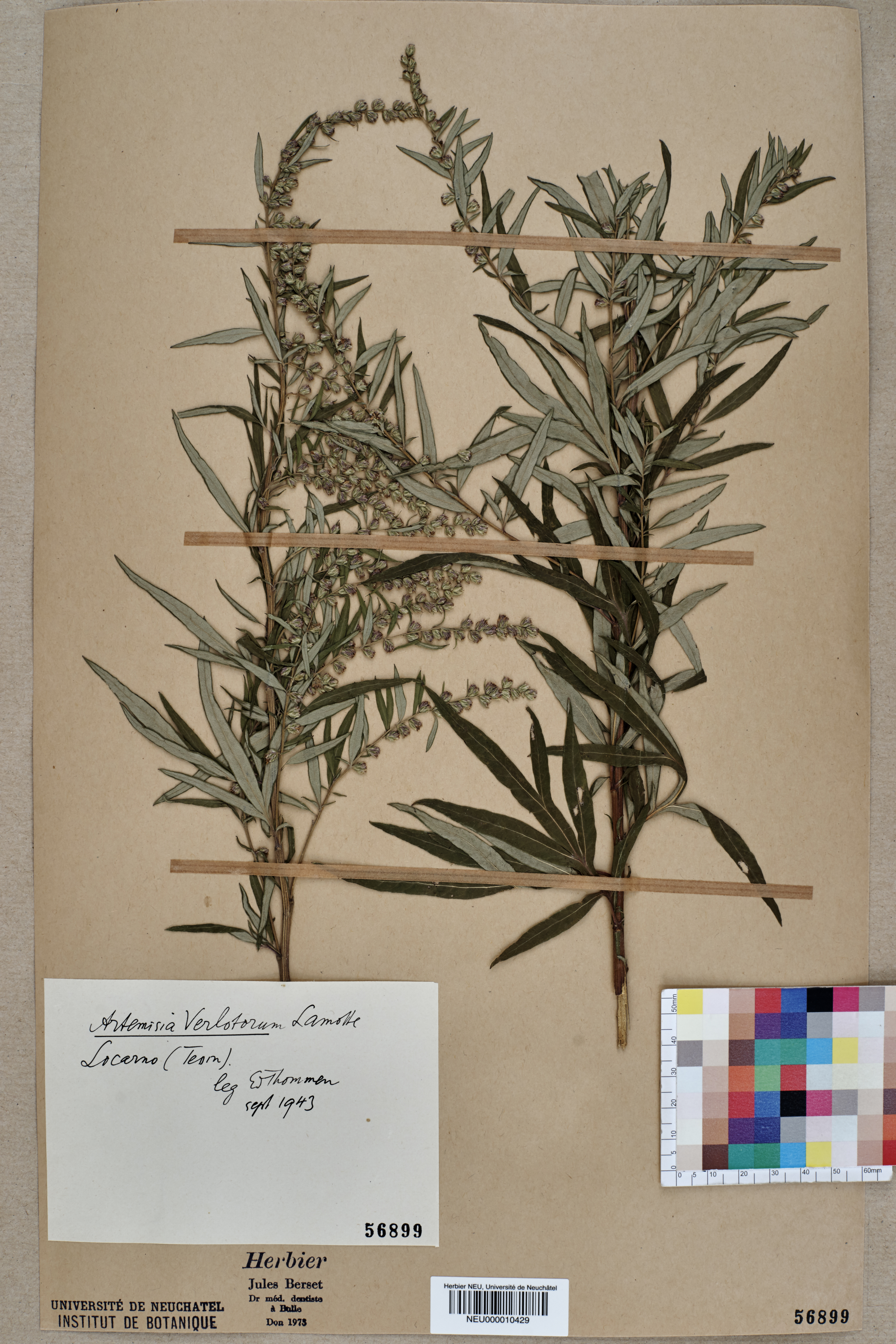 Dried pressed specimen of Artemisia verlotiorum